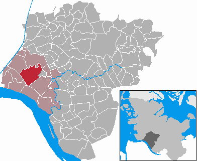 This map shows the area of the municipality Nortorf in the Kreis (district) Steinburg, Schleswig-Holstein, Germany.